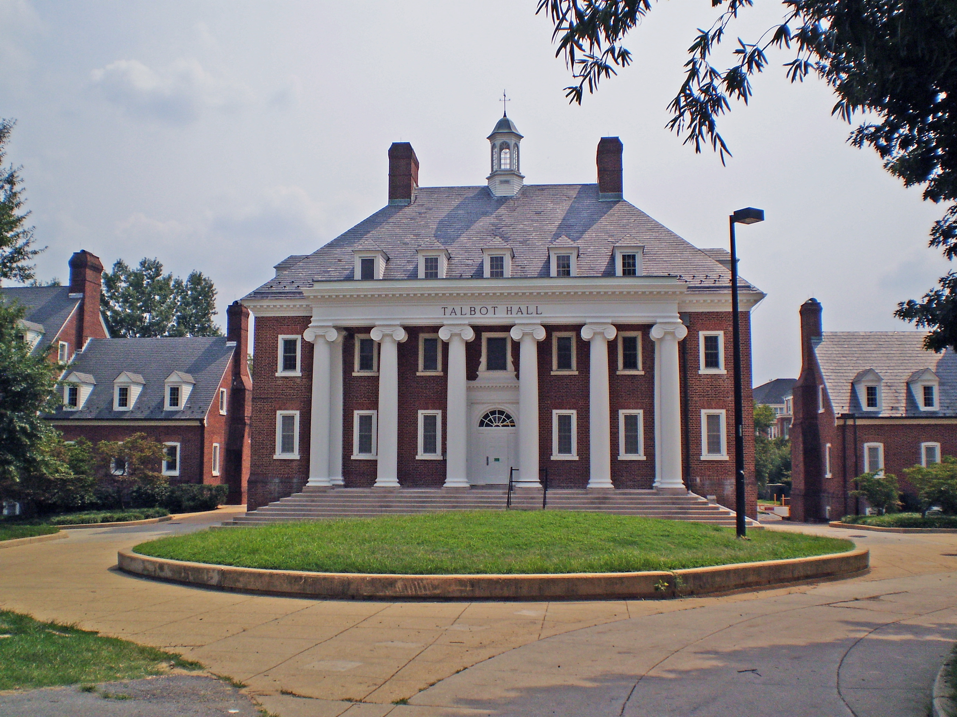 Talbot Hall on the campus of the University of Maryland.